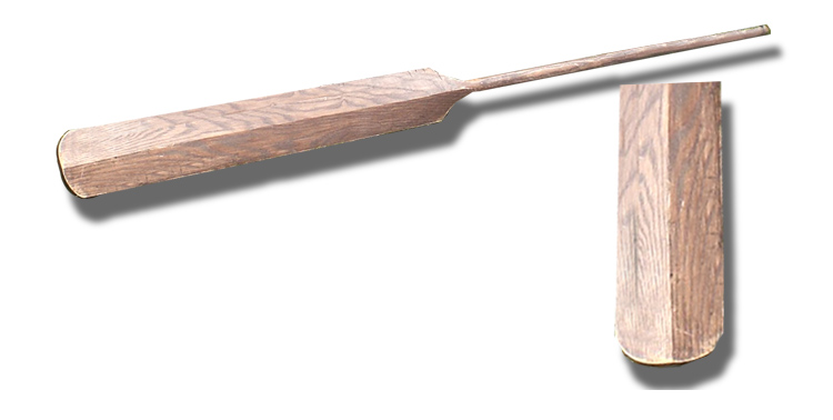 photograph of karate weapon with closeup Eku kaibo kai-bo eiku oar staff eiku